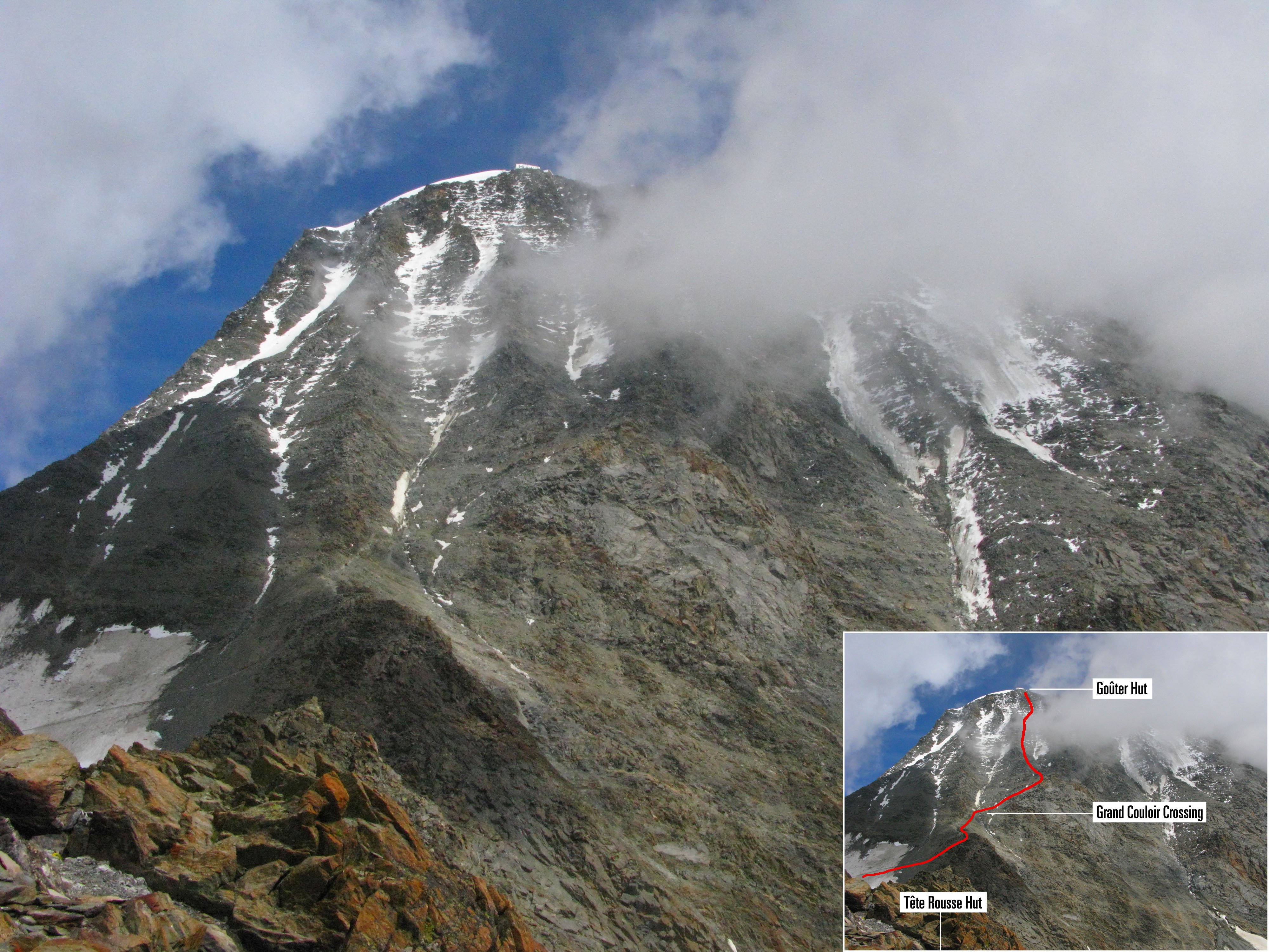 The Grand Couloir, Mont Blanc, France. Viewed from the Tête Rousse hut. Insert: approximate ascent route to the Goûter hut, with marking of the Grand Couloir crossing area.